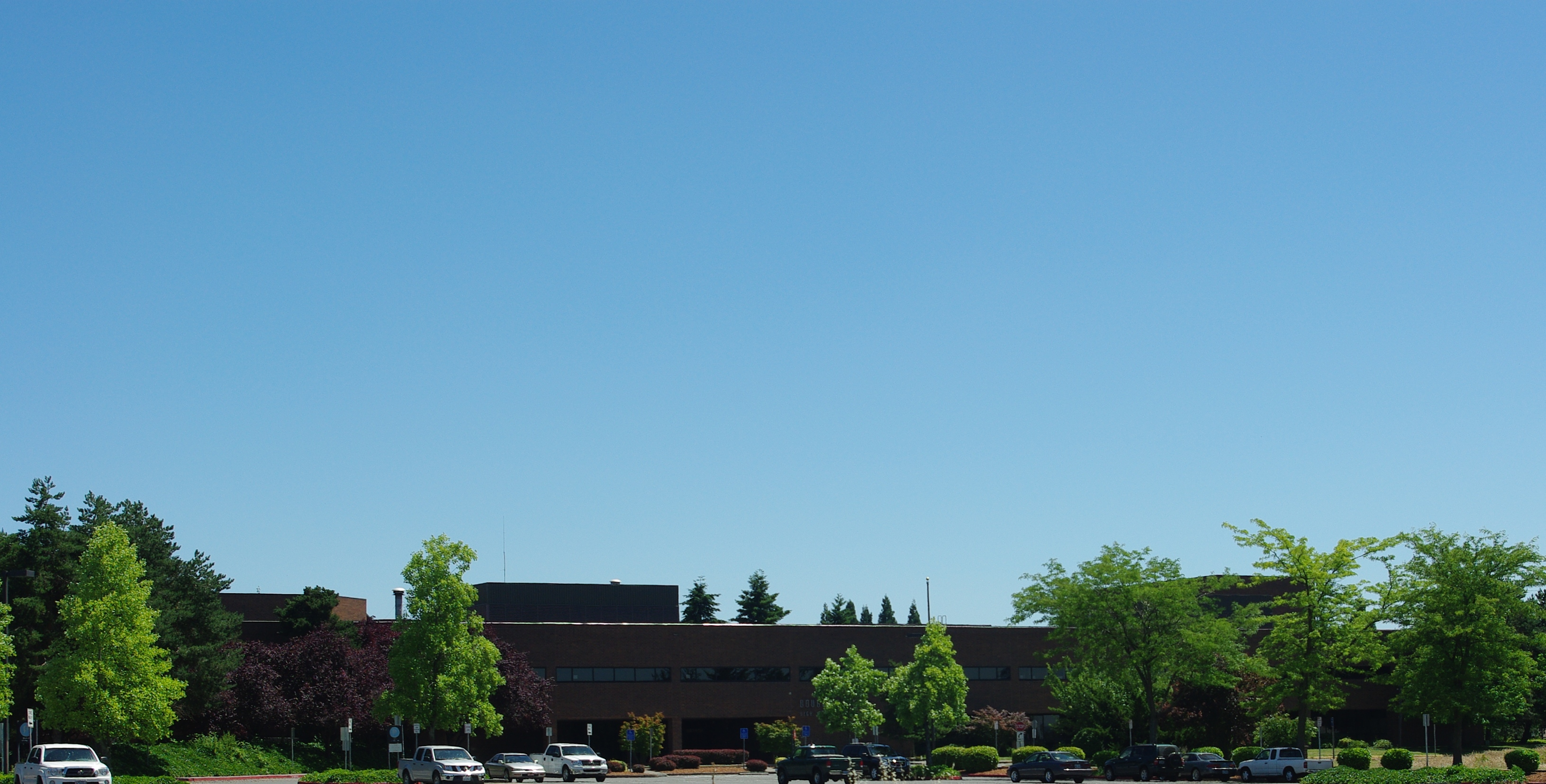 Douglas McKay High School in Salem, Oregon, USA